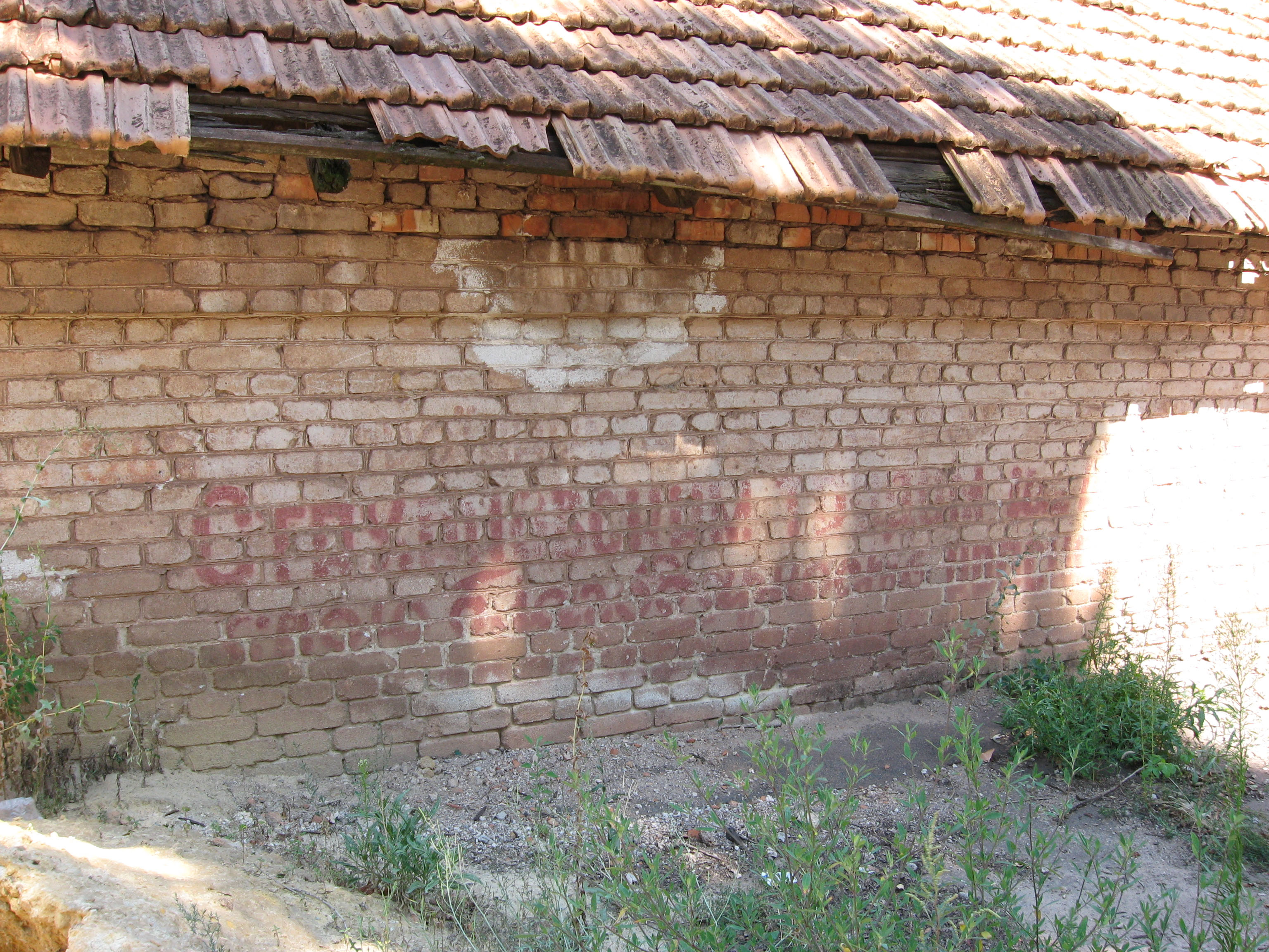 Legend on the wall of building made to congratulate forces of Soviet Red Army with deliverance the city of Kriviy Rig from German forces in February, 22, 1944